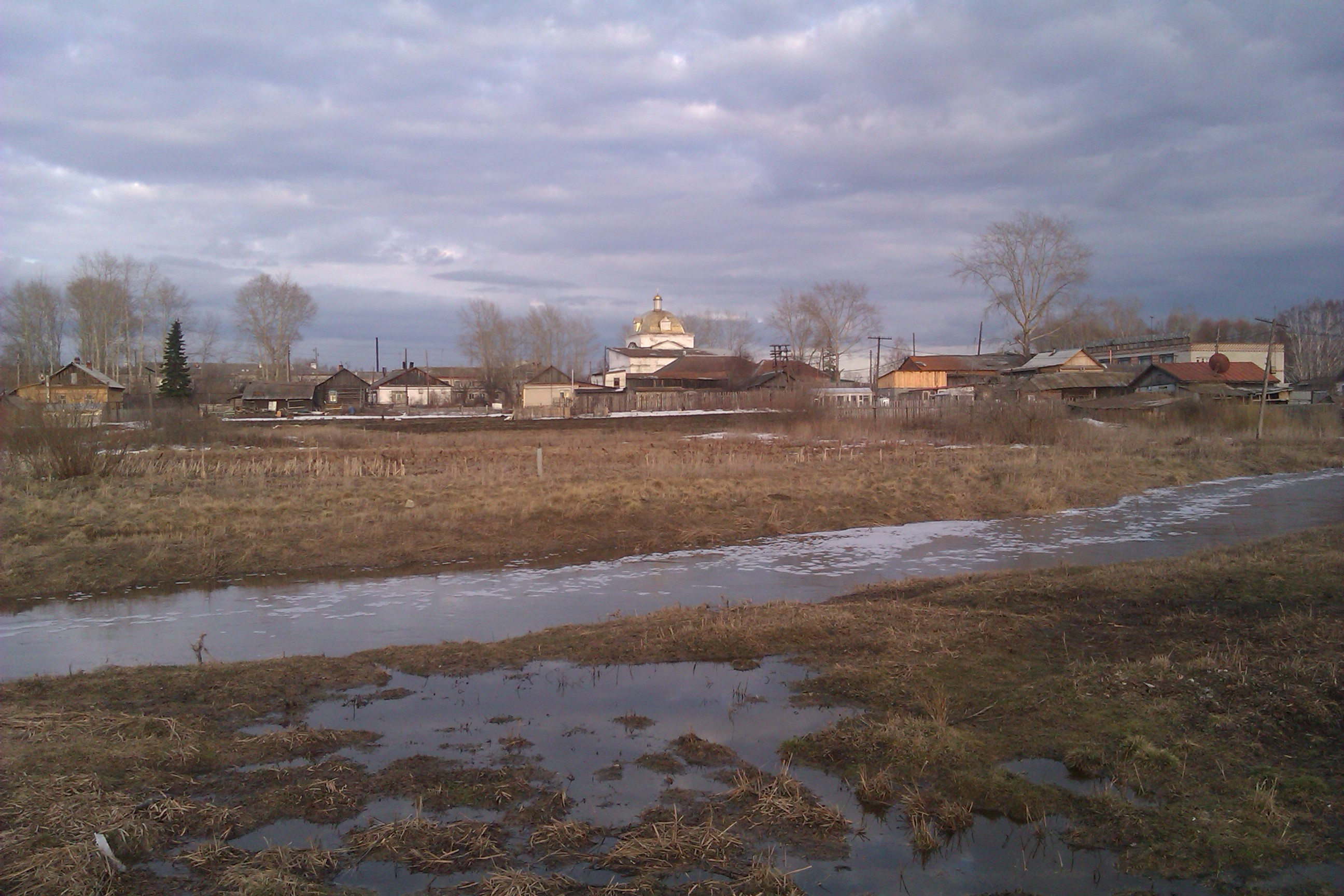 Gryaznovskoye settlement and Gryaznushka river